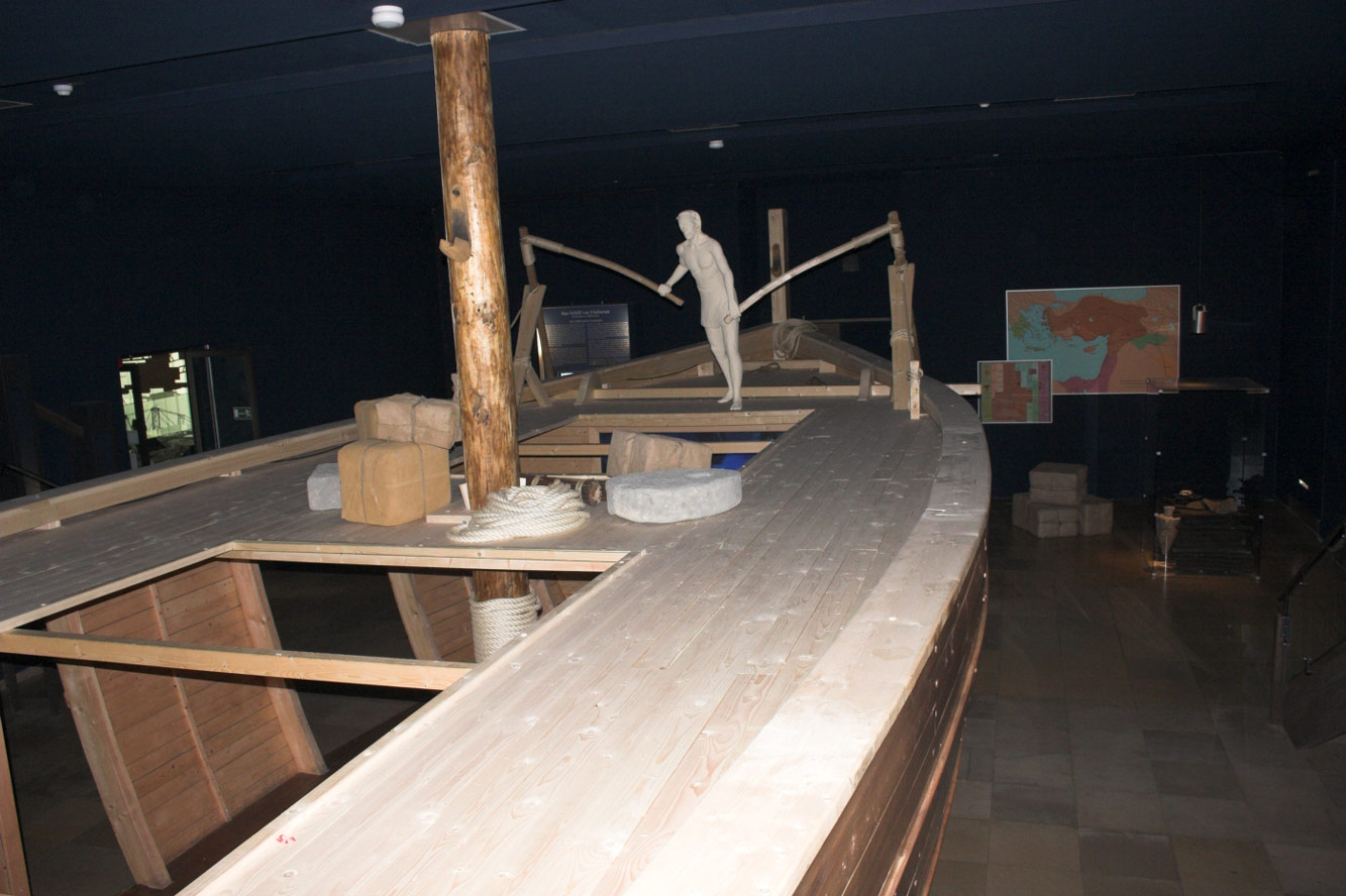 Information Description: Stern as part of the ship replica (exhibition room) Source: own work Date: June 2006 Author: Martin Bahmann